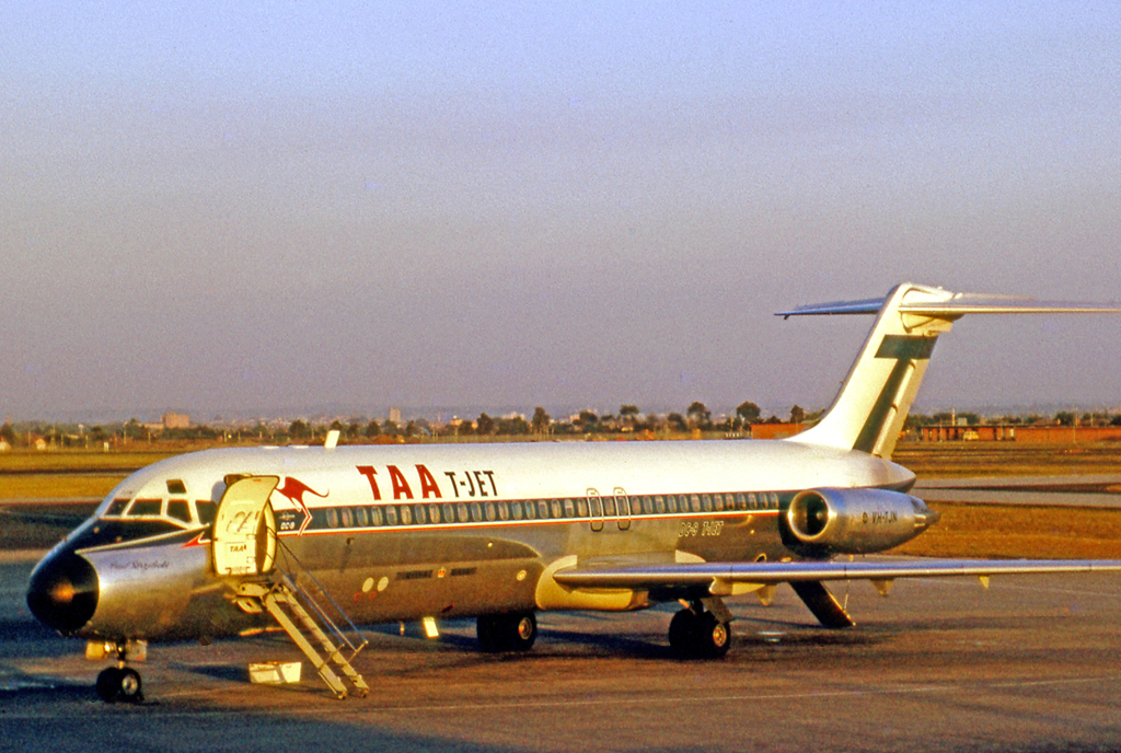 Douglas DC-9-31 VH-TJN of Trans Australian Airlines at Melbourne Essendon in 1971